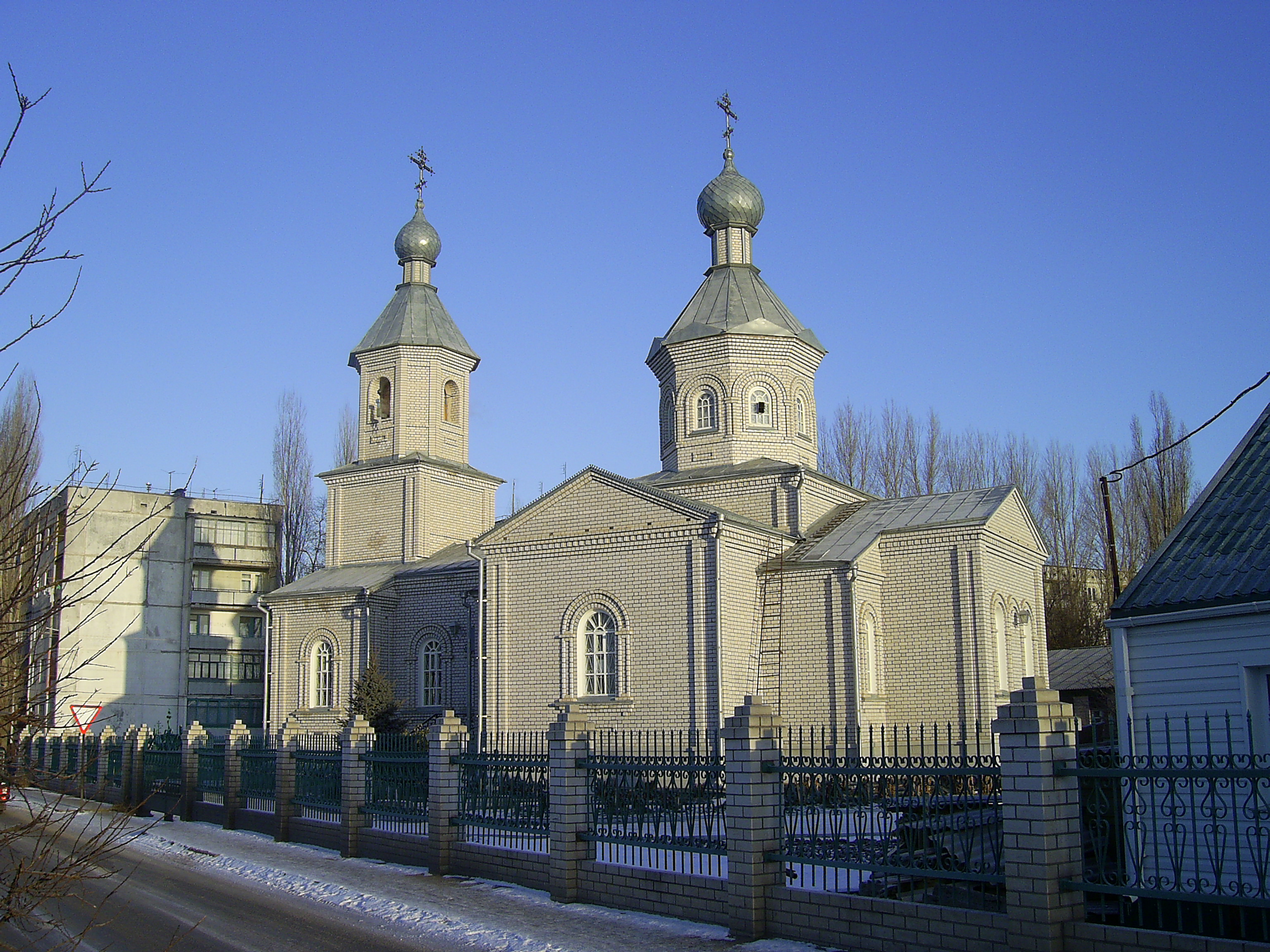 Храм святого князя Дмитрия Донского пгт Иловля, Волгоградская область